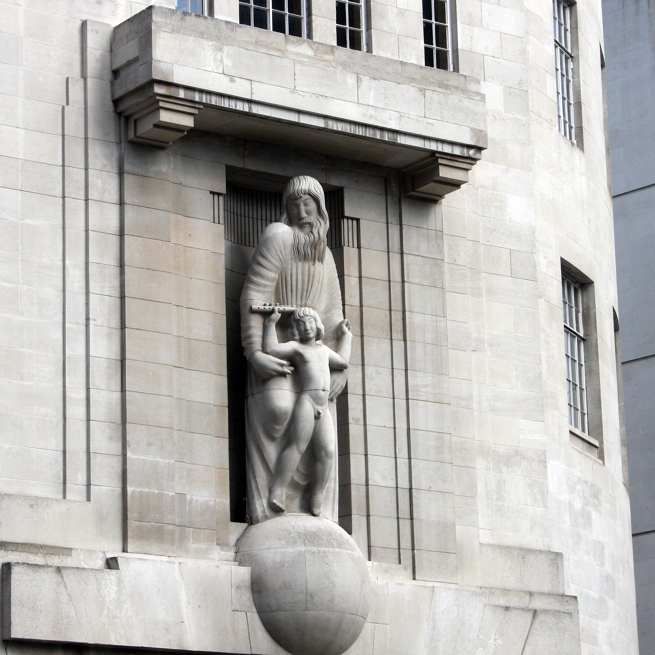 Prospero and Ariel by Eric Gill on the facade of the Broadcasting House in London